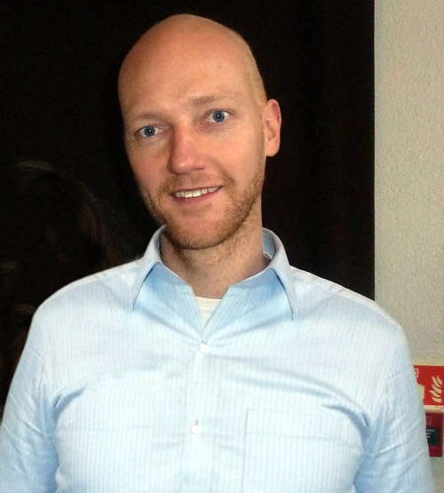 Image of Mark Champkins taken in 2010